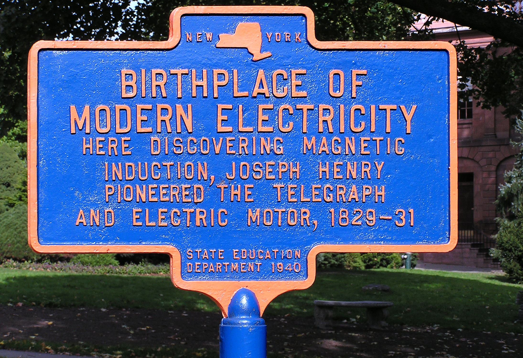 Location: Academy Park, Washington Avenue side, Albany, New York, N 42 39.14 W 73 45.32. Text: Birthplace Of Modern Electricity Here discovering magnetic induction, Joseph Henry pioneered the telegraph and electric motor, 1829-31 State Education Department 1940